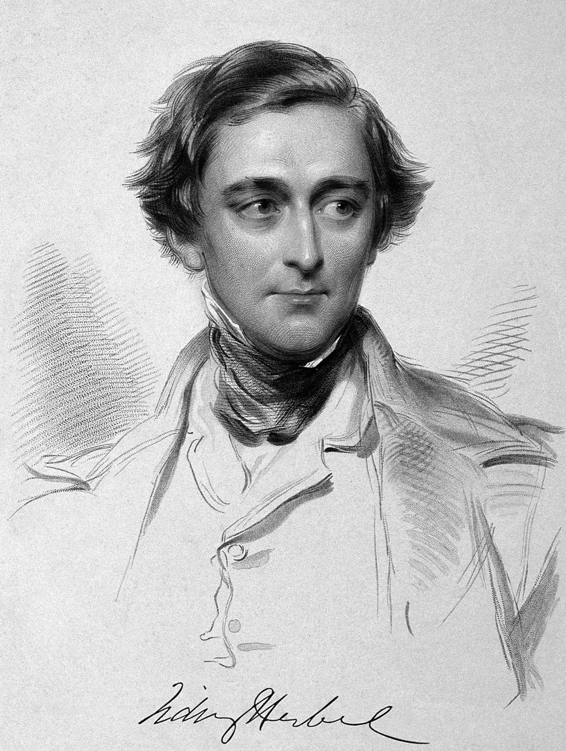 Sidney Herbert, 1st Baron Herbert of Lea.